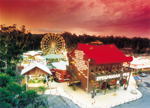 The Ettamogah Pub